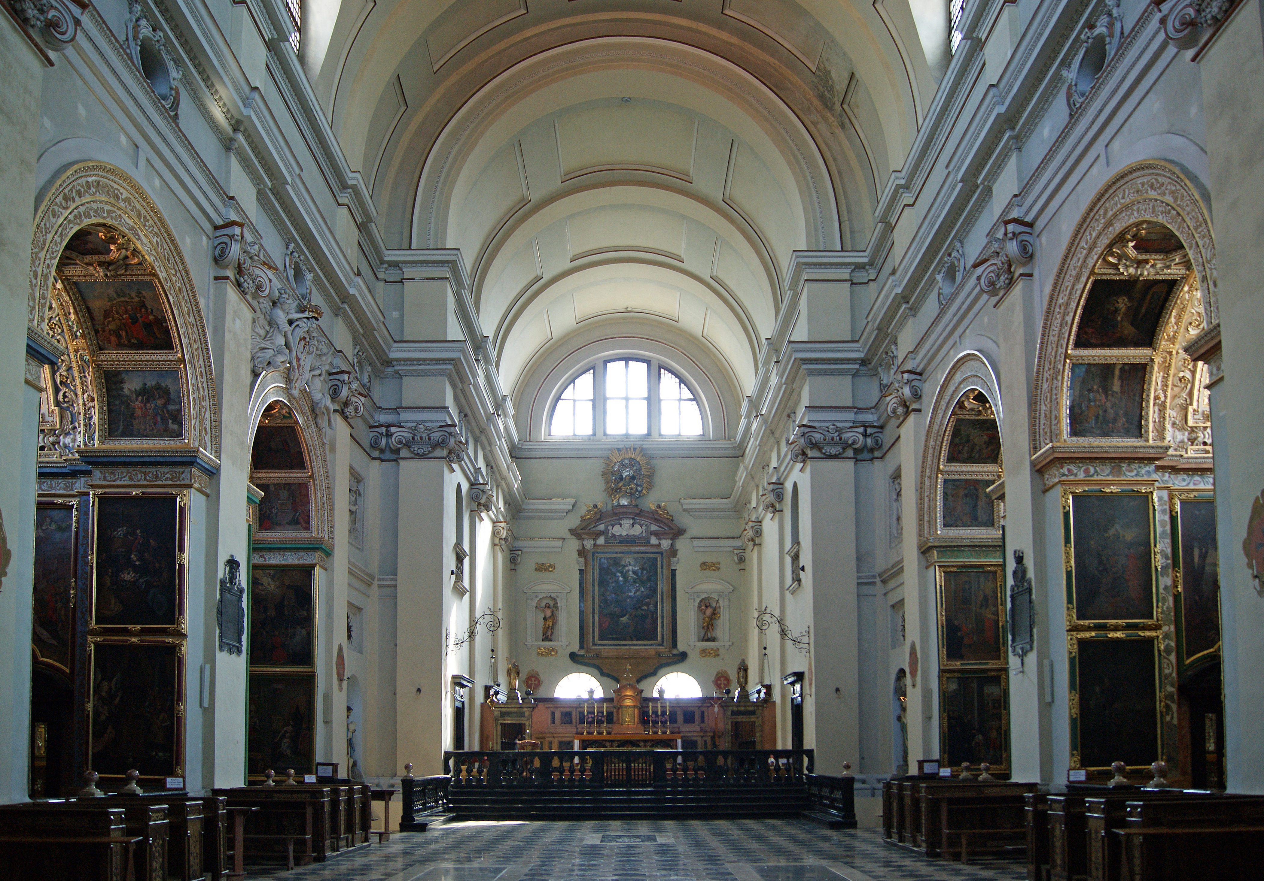 Church of Our Lady Assumed into Heaven (Camaldolese)-interior, 1 Konarowa Av, Bielany, Krakow, Poland